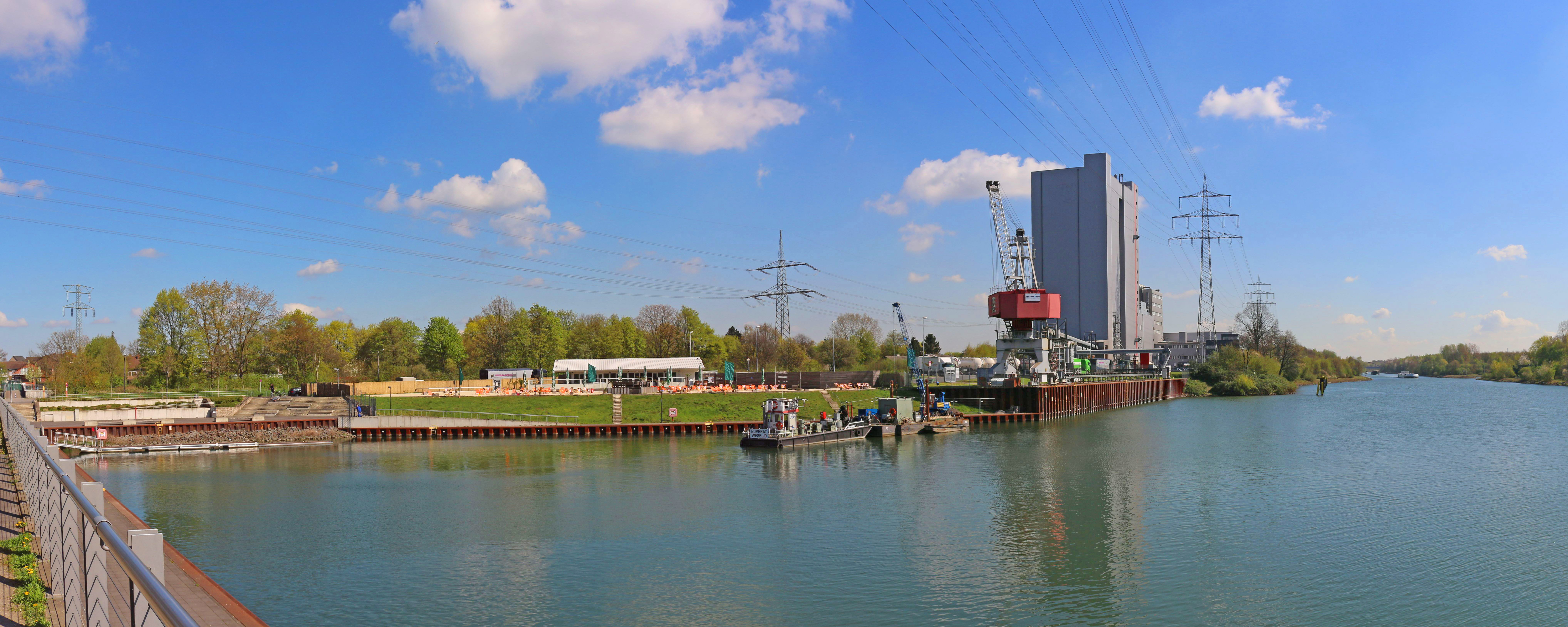 panoramic view of the City port of Recklinghausen - Recklinghausen, North Rhine-Westphalia , Germany